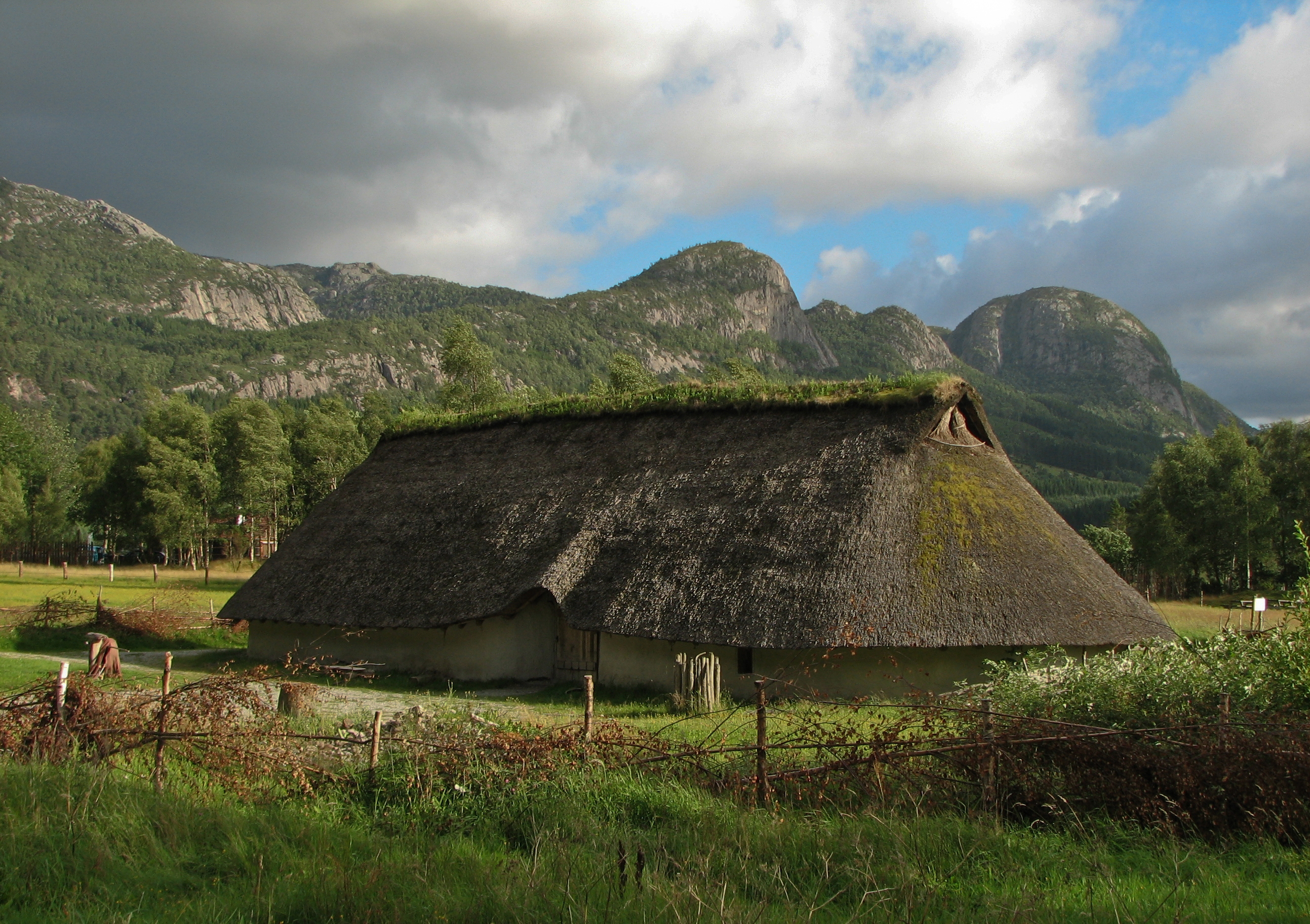 A wooden Viking house in Landa (archaeological outdoor museum) near Forsand, Norway